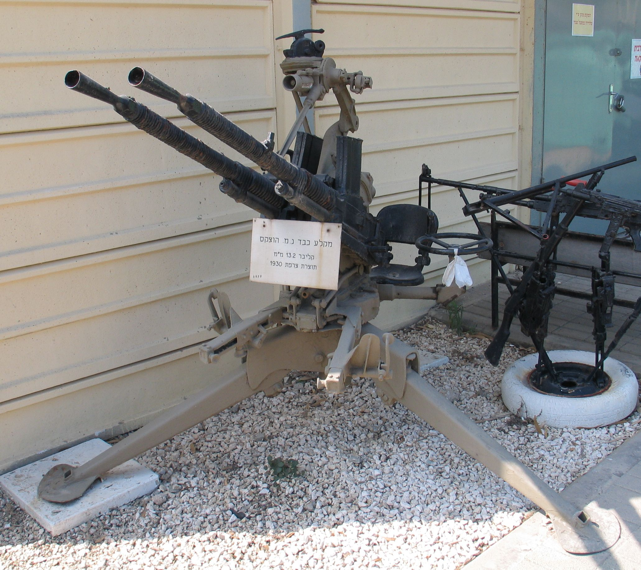 French Hotchkiss 13.2 mm machine guns in a twin anti-aircraft mount in Batey ha-Osef Museum, Tel Aviv, Israel.